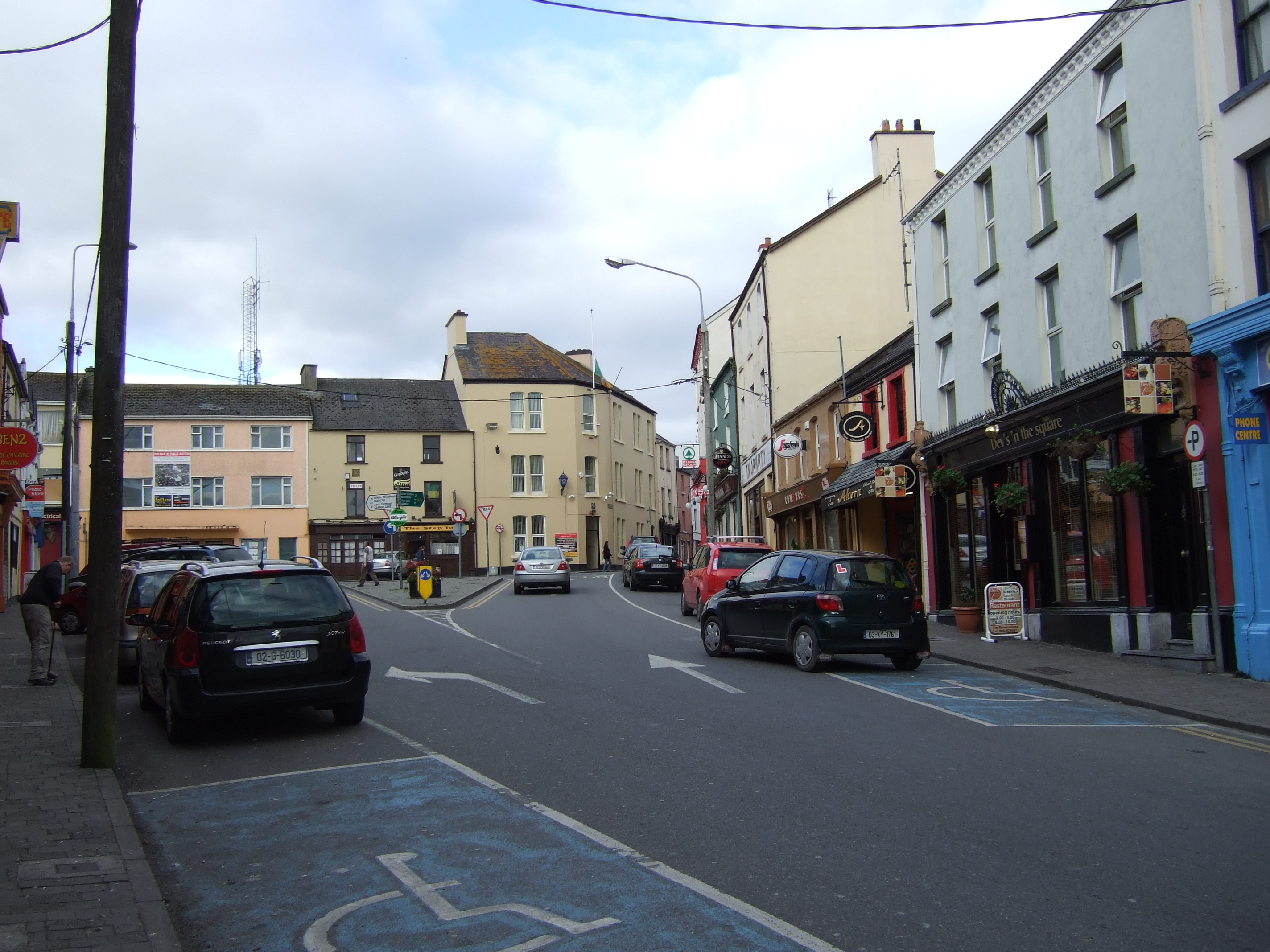 Main Street Killorglin, County Kerry, Republic of Ireland